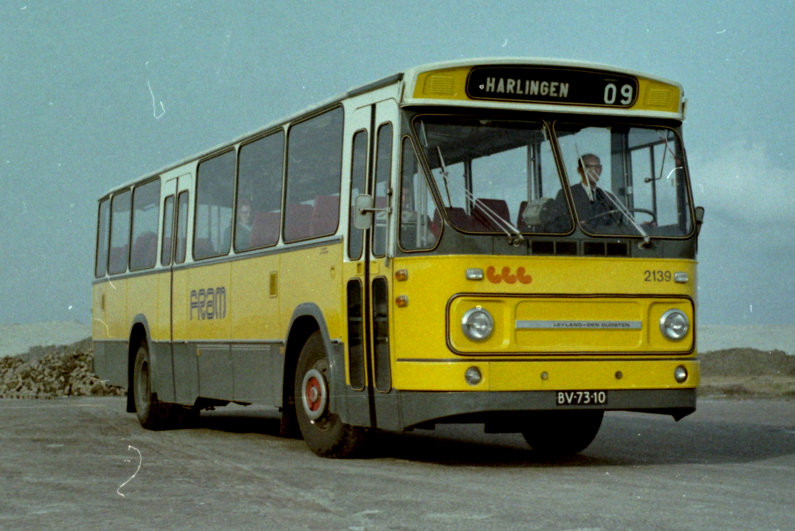 Den Oudsten LOB bus (#2139) with Leyland chassis in Zurich, Netherlands. Friese Autobus Maatschappij.